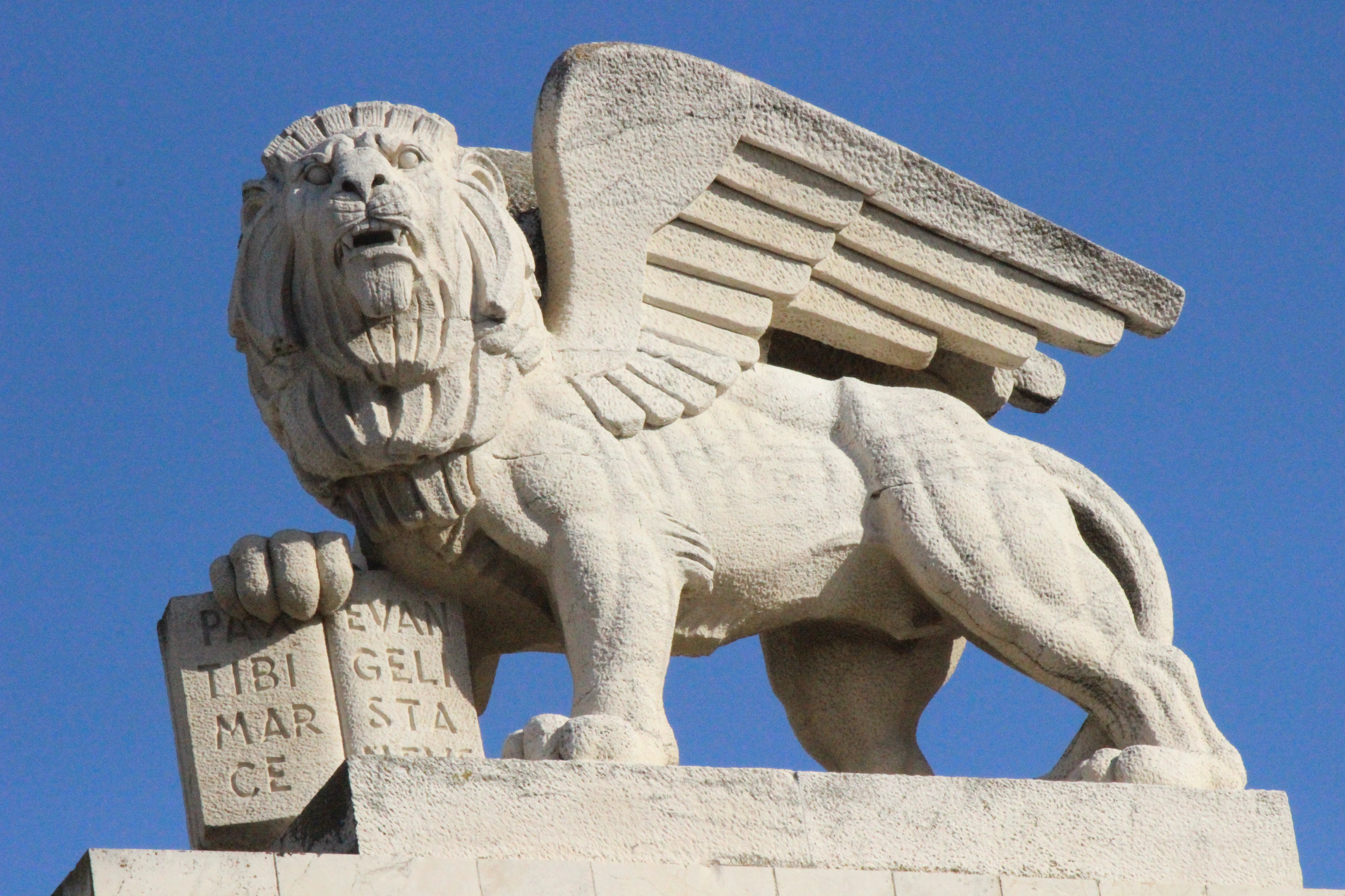 The photo depicts a winged lion on the top of the Generali Building on Jaffa Road (corner Queen Shlomzion Street) in Jerusalem. It is the symbol of the insurance company, Assicurazioni Generali, and the Lion of Saint Mark, patron saint of Venice, Italy.